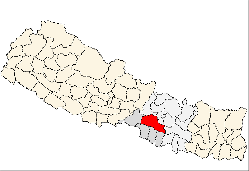 FrenchCarte de localisation dudistrict de Makwanpur(wp-FR),au Népal (wp-FR).EnglishLocation map ofMakwanpur District(wp-EN),in Nepal (wp-EN).